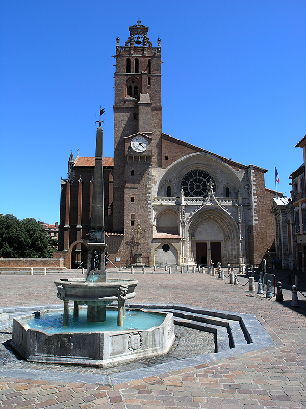 Saint Etienne's cathedral, Toulouse, France